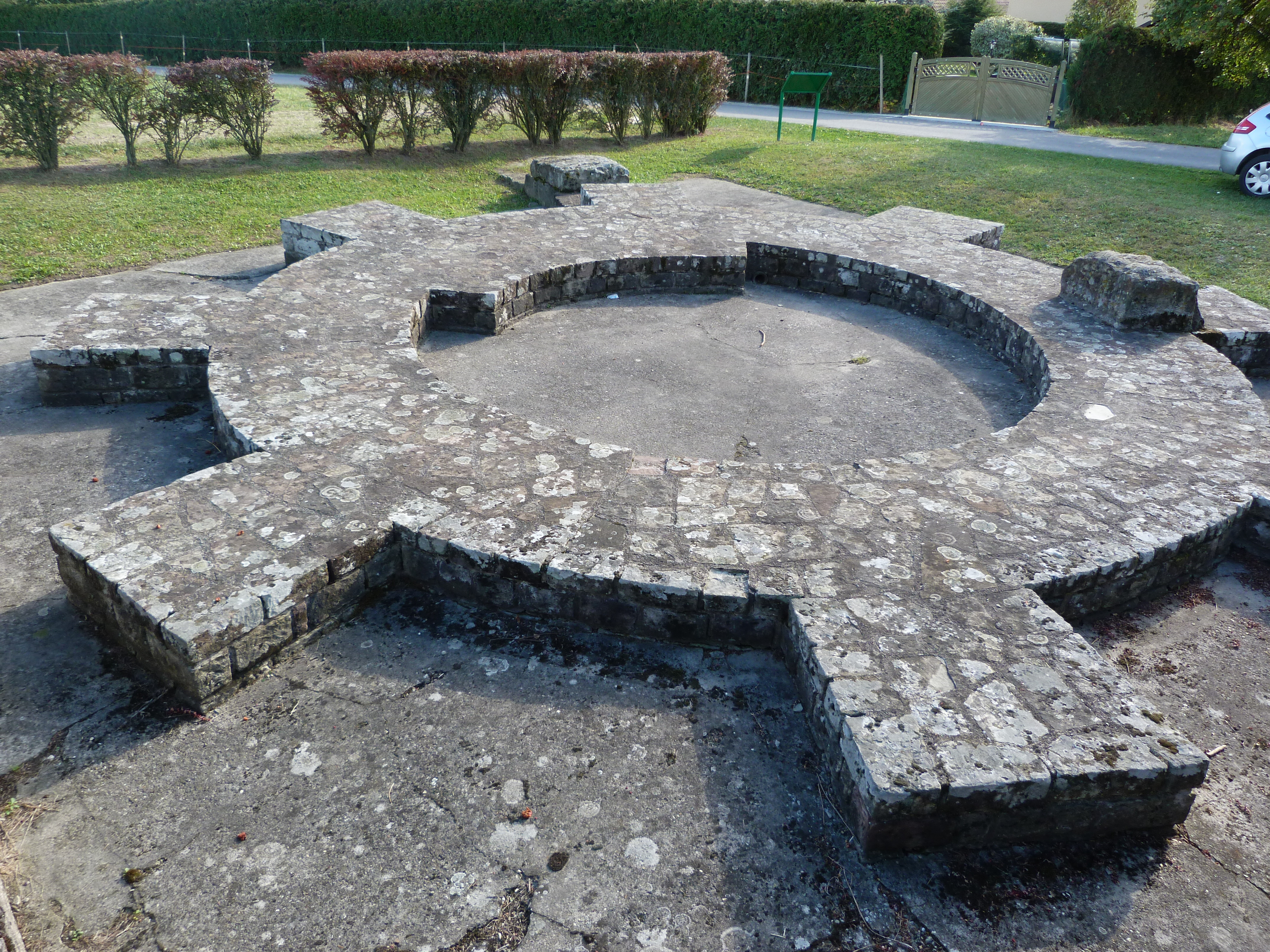 This building is indexed in the Base Mérimée, a database of architectural heritage maintained by the French Ministry of Culture, under the references PA00084781 and PA00085209 .